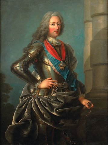 Louis d'Orléans, Duke of Orléans (1703-1752)